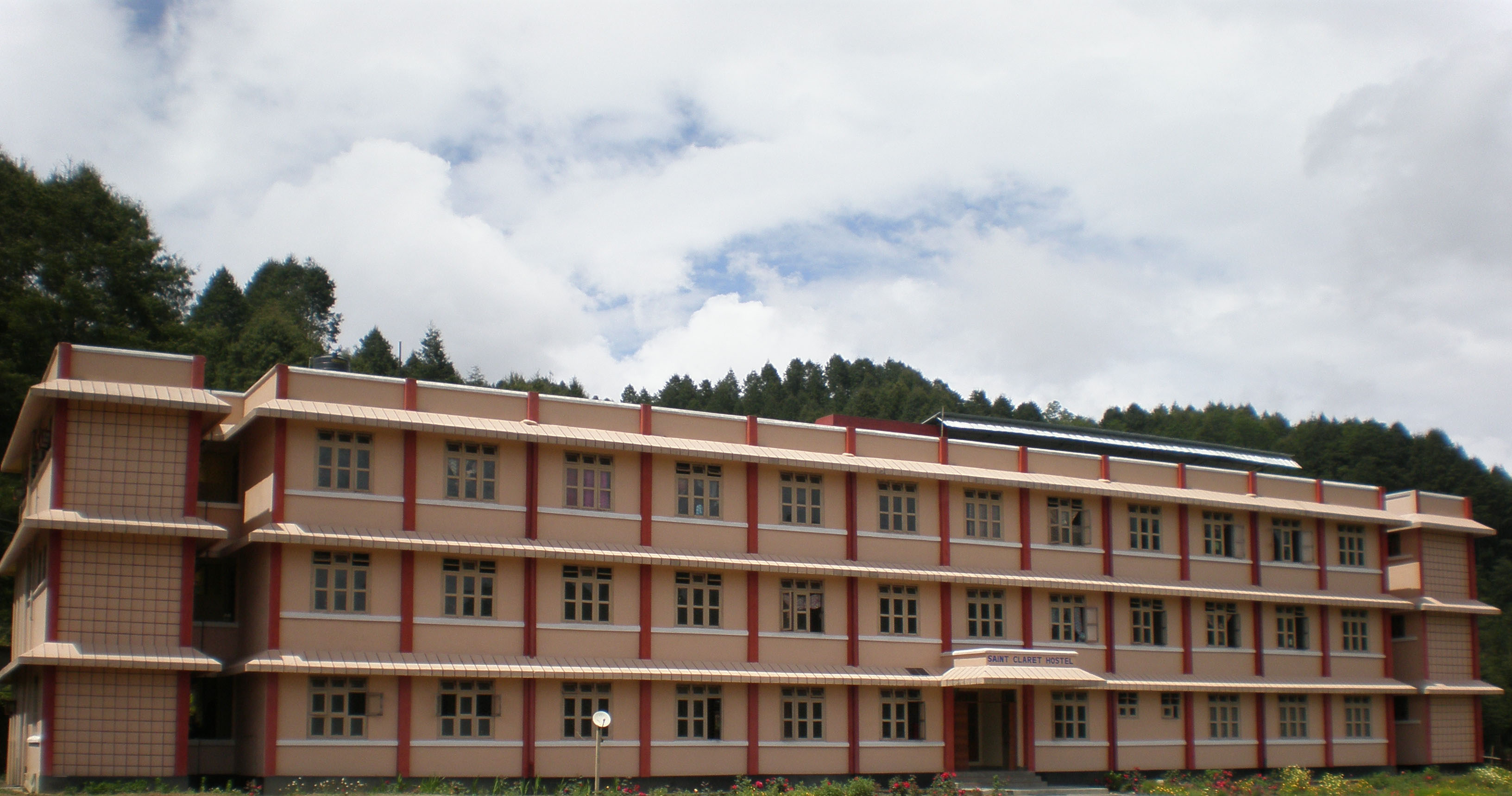 Residence Hall for Women (SCCZ)